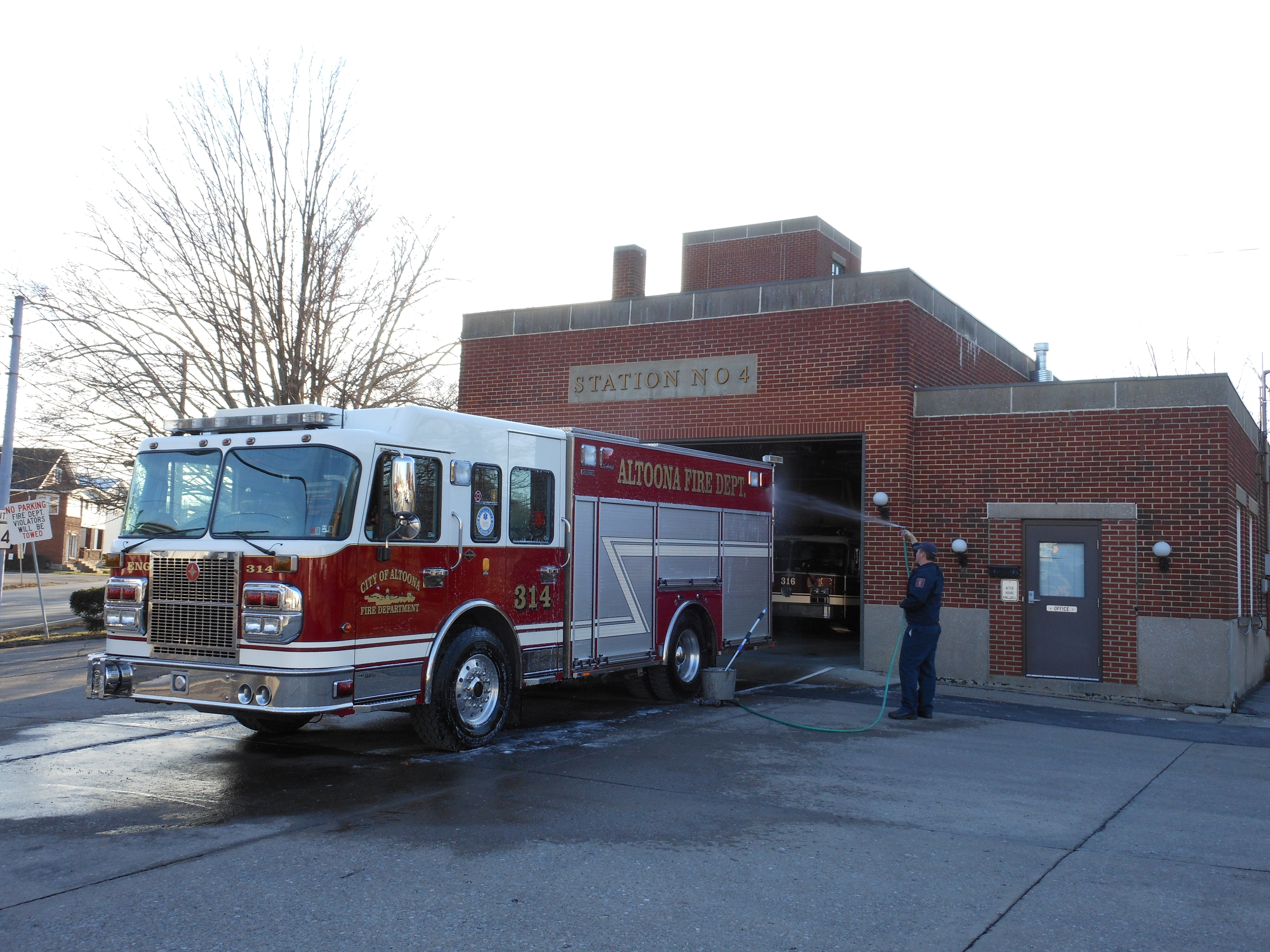 Station 4